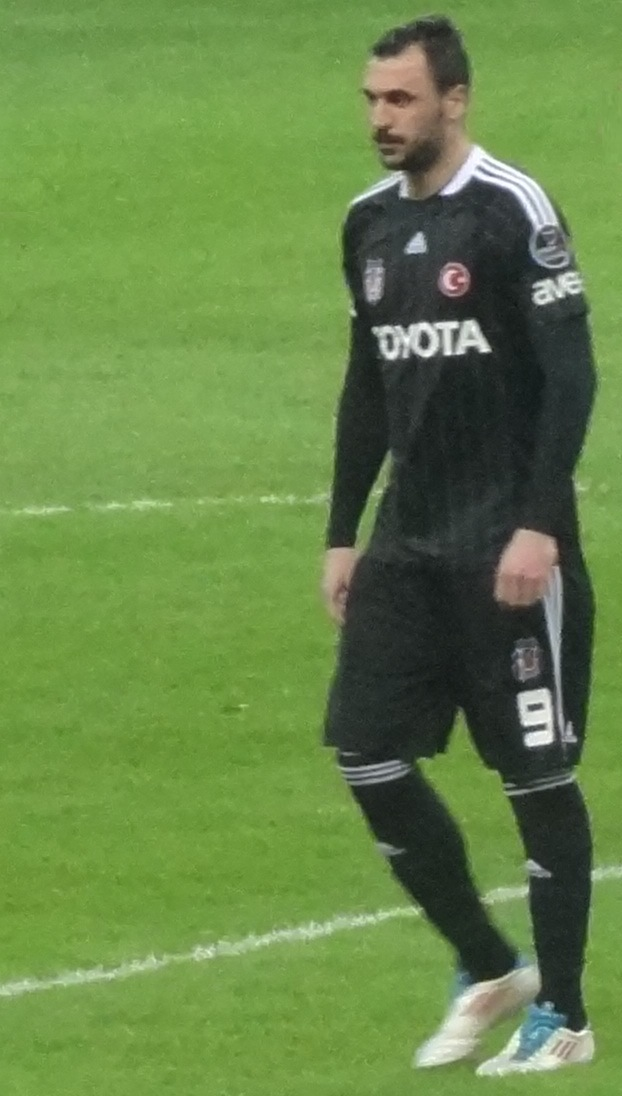 Almeida Beş,ktaş-Galasaray 26 Feb 2012